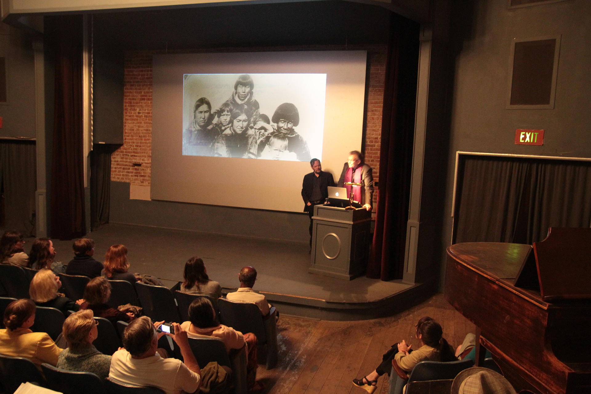 Dr. Russell Potter and Kenn Harper give an illustrated lecture at the Velaslavasay Panorama in Los Angeles, California.